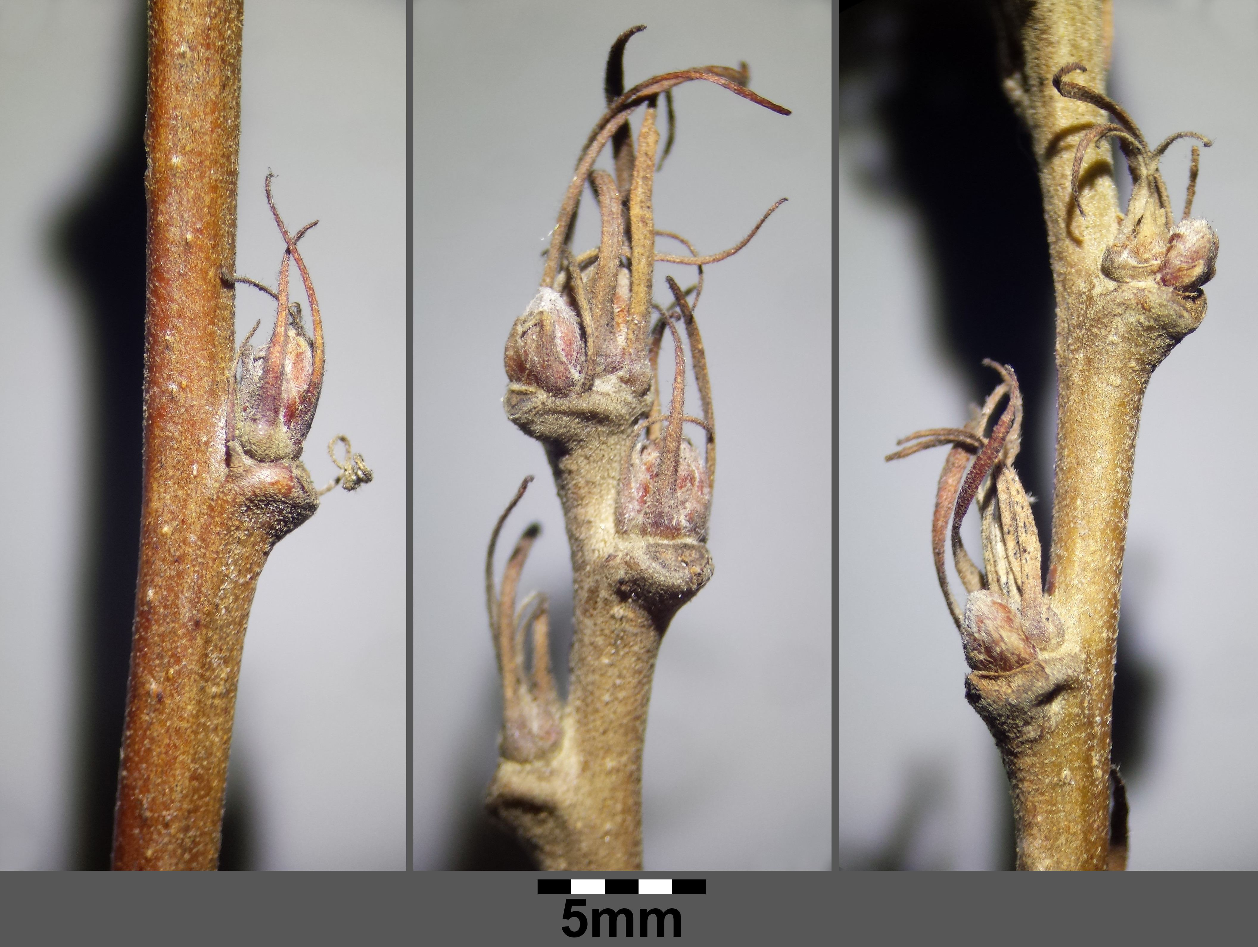 Buds, stipules Taxonym: Quercus cerris ss Fischer et al. EfÖLS 2008 ISBN 978-3-85474-187-9 Location: near Niederhollabrunn, district Korneuburg, Lower Austria - ca. 300 m a.s.l. Habitat: border of a wood / semi-dry grassland